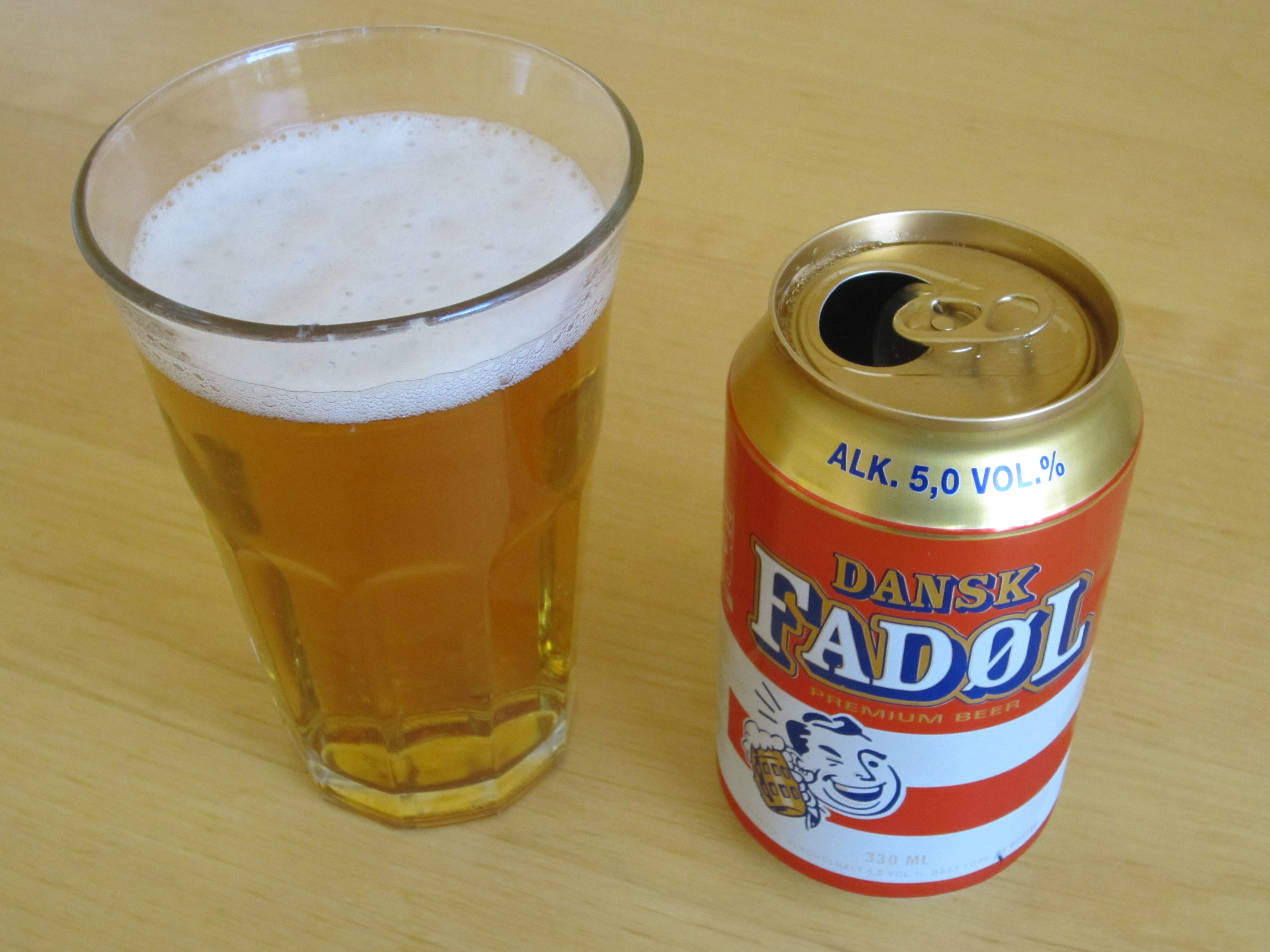 Dansk Fadøl 5.0%